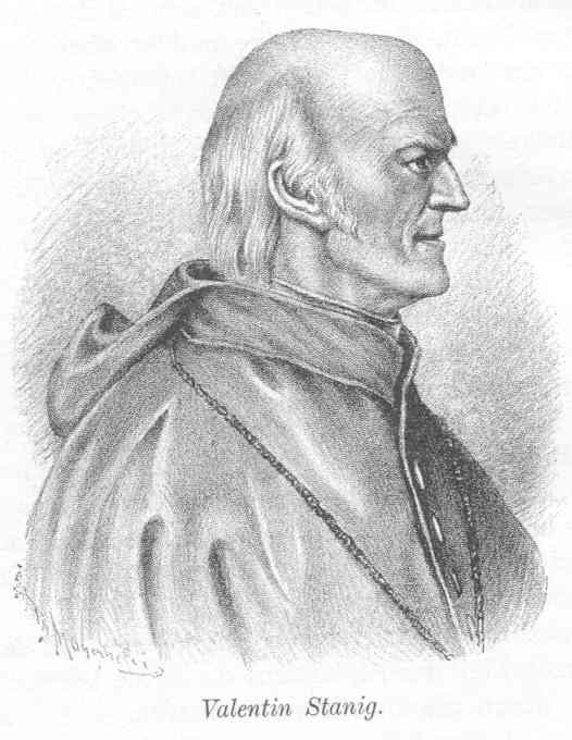 Scan from a historic book 1894